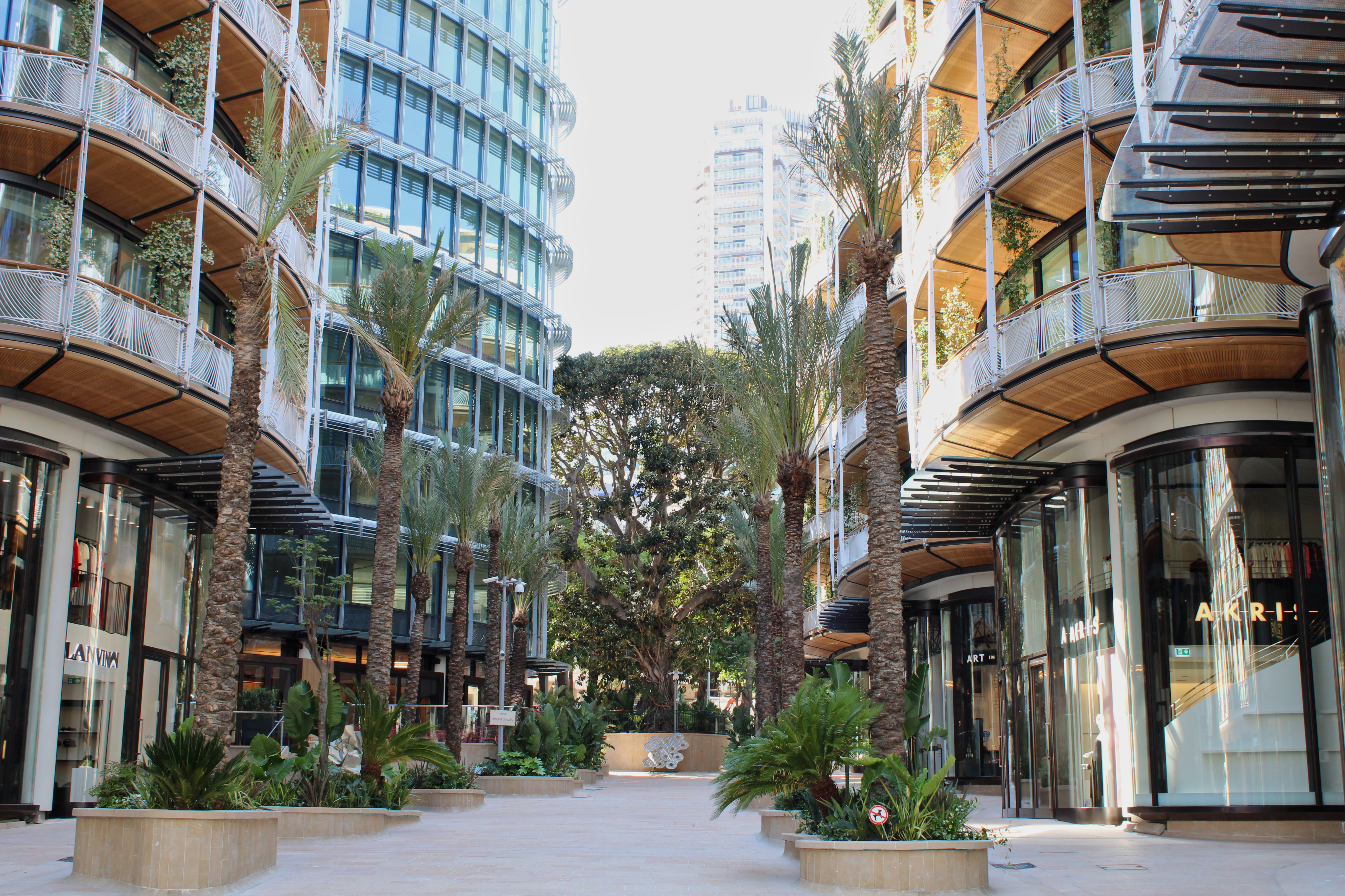 Shopping in Monaco